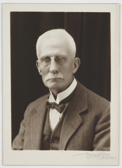 Creator: Curzon Studios Date: c. 1926 Format: Photograph; bromide print Material: Paper Collection: The Royal Photographic Society Collection at the National Media Museum Inventory no: 2003-5001/2/22868 Blog post: Snappy 5th birthday Flickr Commons Charles Job (c. 1853 - 1930) was made an Honorary Fellow of the Royal Photographic Society in 1895.